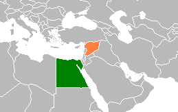 Map location of Egypt and Syria.